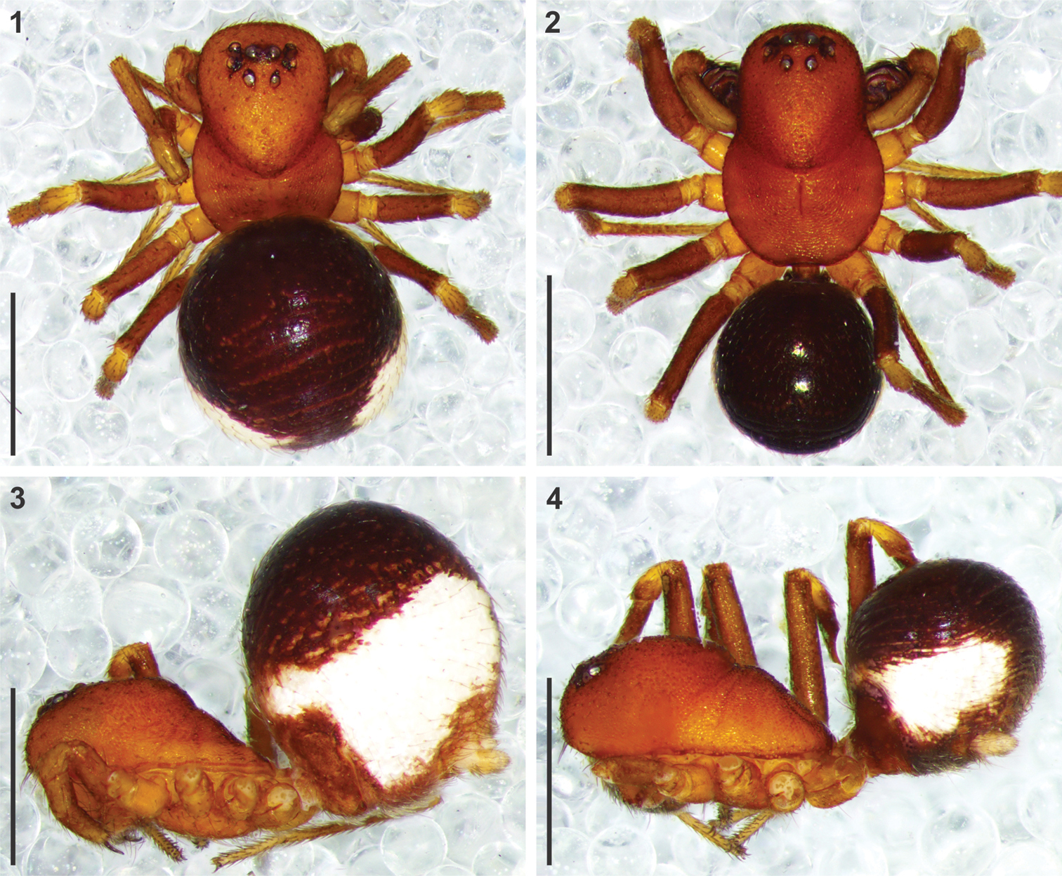 Somatic morphology of Mallinus nitidiventris female (1, 3) and male (2, 4) from Bankfontein, Free State (NCA 2015/1818) 1, 2 habitus, dorsal view 3, 4 same, lateral view. Scale bars: 1.0 mm.